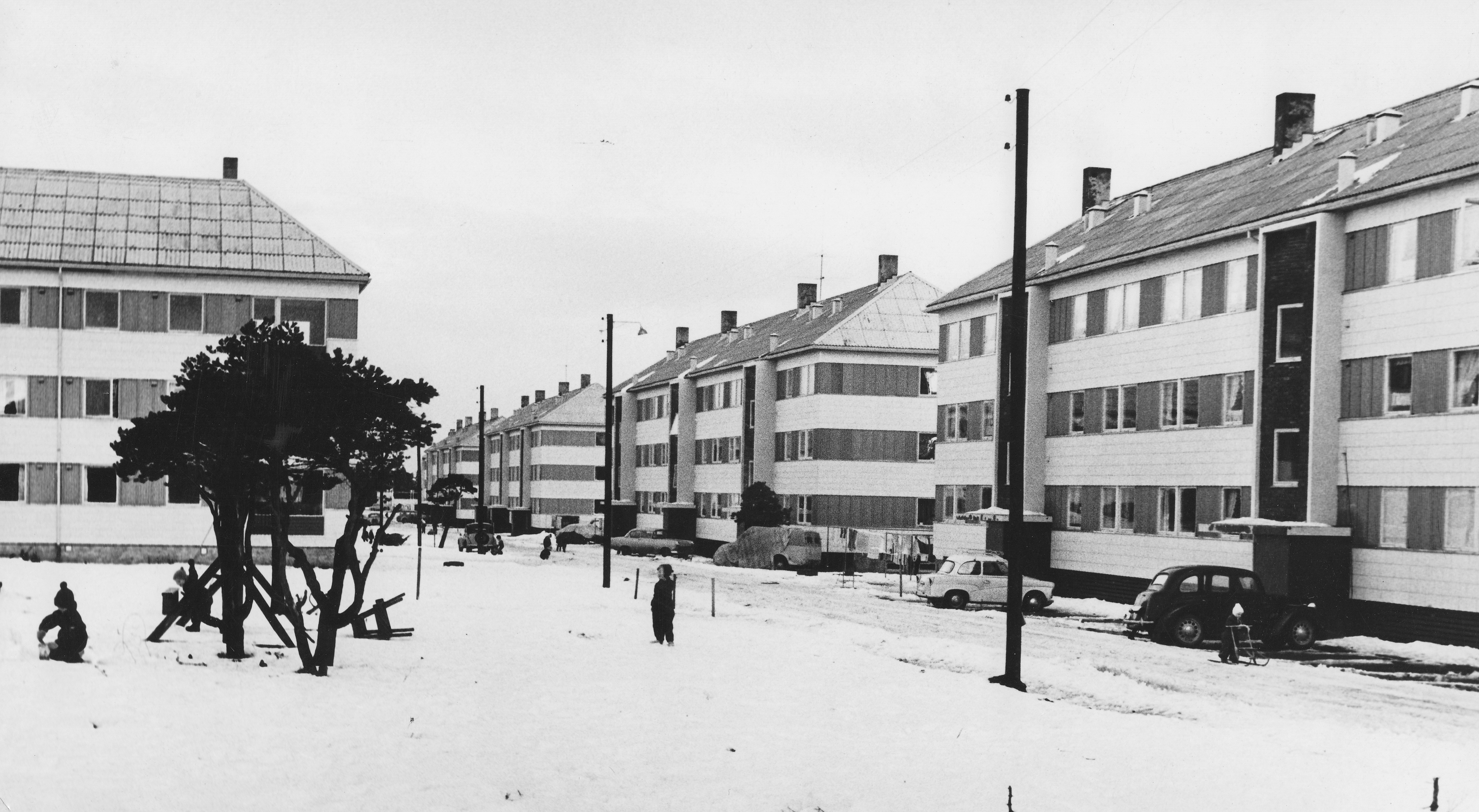 Format: Fotopositiv Dato / Date: Desember 1963 Fotograf / Photographer: Ukjent Sted / Place: Jarveien / Myrmoen, Heimdal Eier / Owner Institution: Trondheim byarkiv, The Municipal Archives of Trondheim Arkivreferanse / Archive reference: Tor.H41.B35.F2681